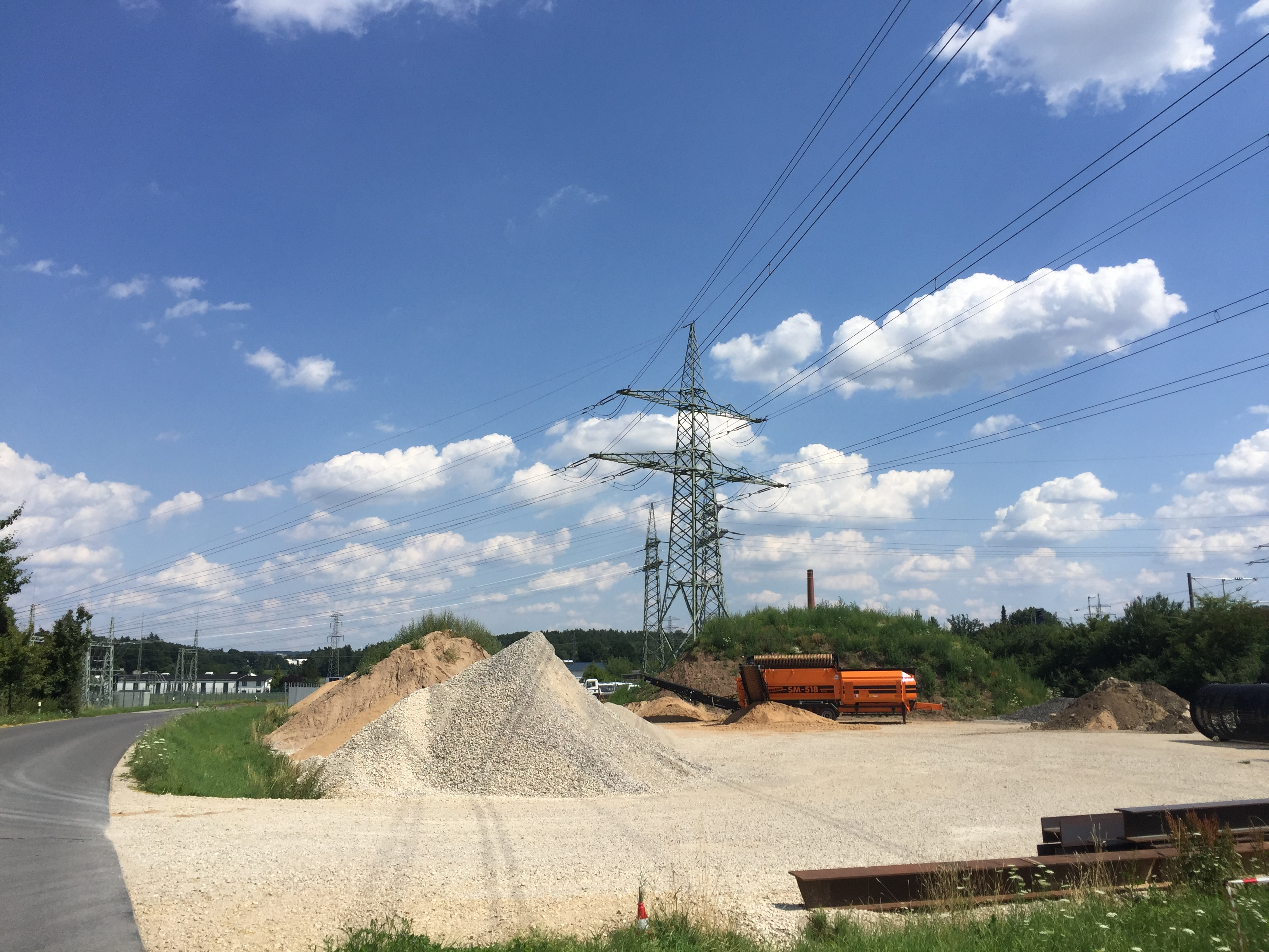 Ludersheim Substation